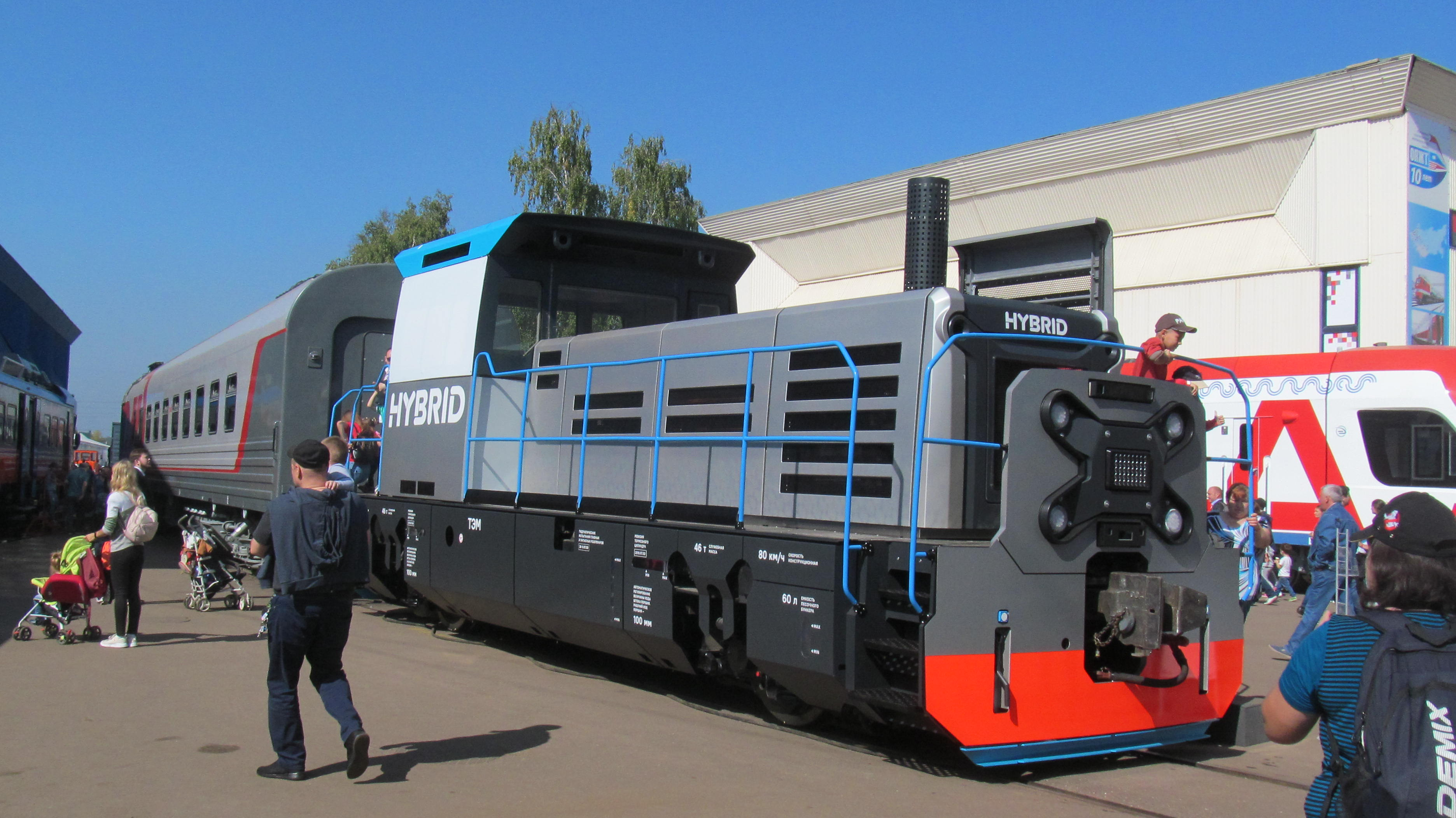 Hybrid locomotive-concept TEM5X, also known as TEM31G "HYBRID" at "PRO//Движение.Экспо" exhibition